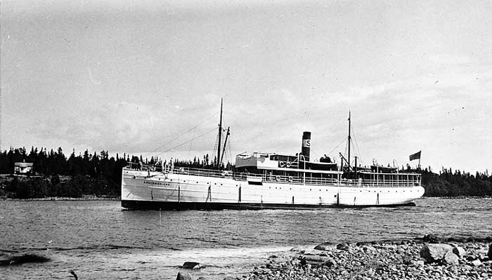 S/S Ångermanland entering the bay of Kallviken in Lövånger.